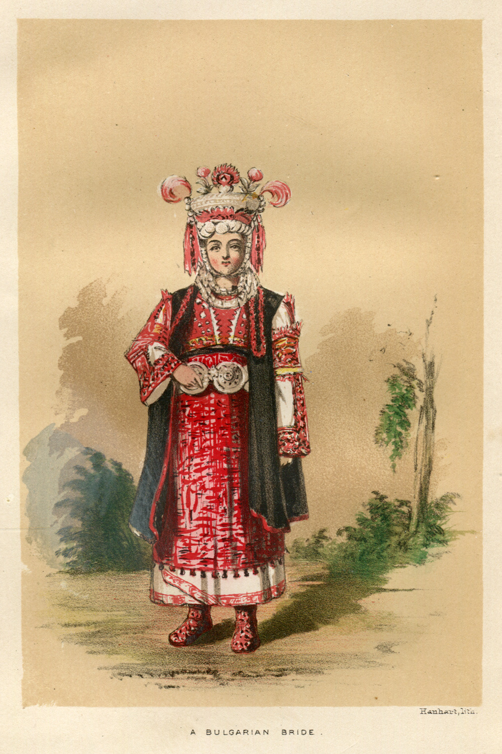 A Bulgarian bride - Walker Mary Adelaide - 1864